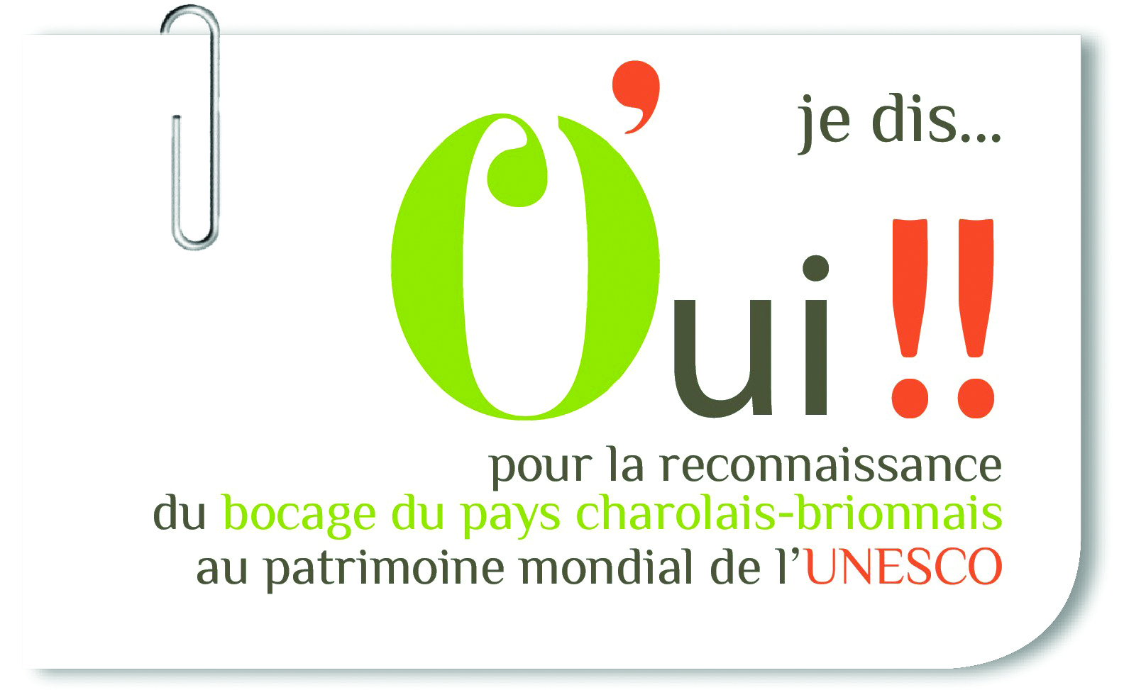 logo candidature UNESCO